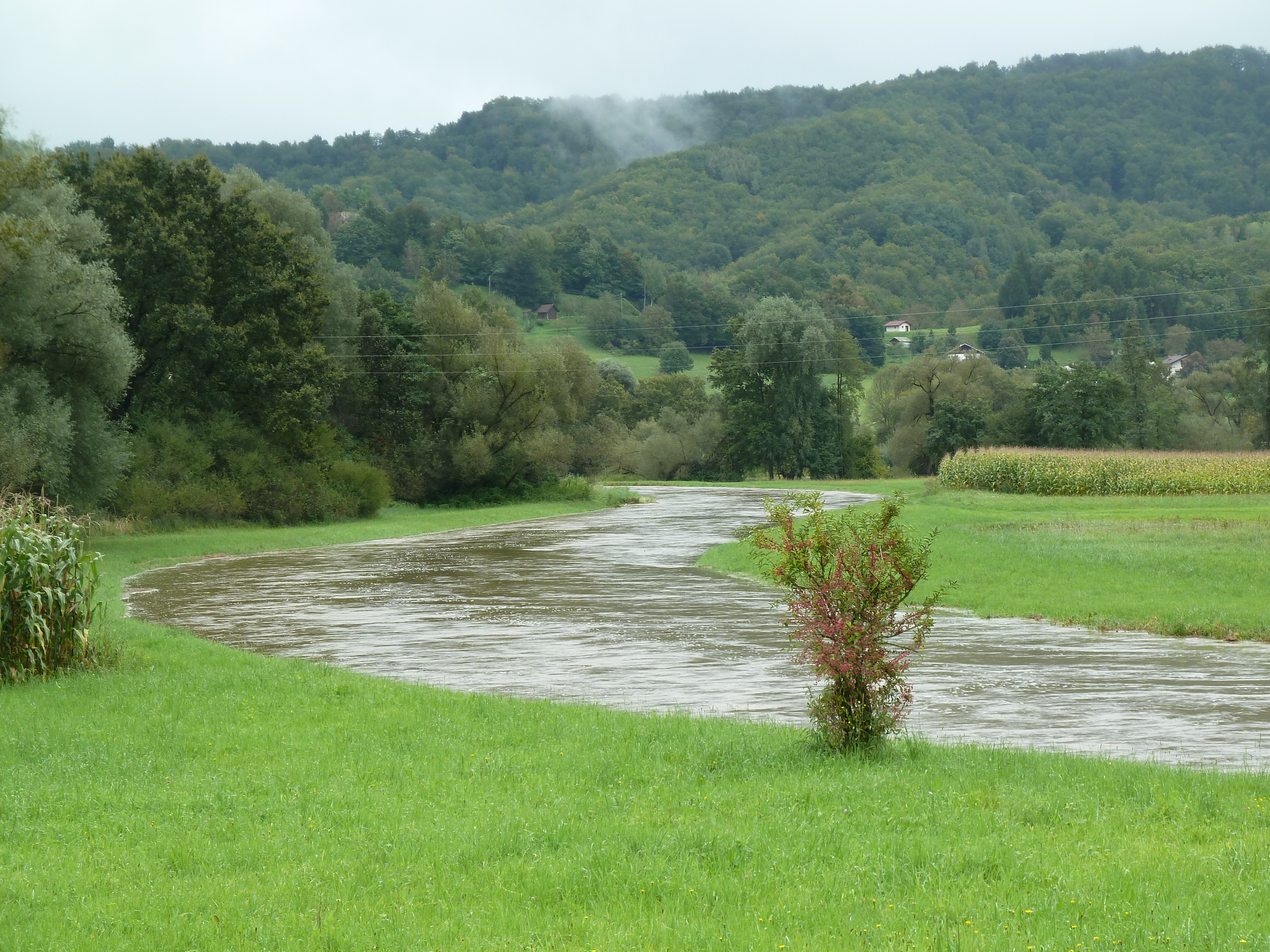 The Ložnica River near the village of Pečke at the high water level on September 13, 2014